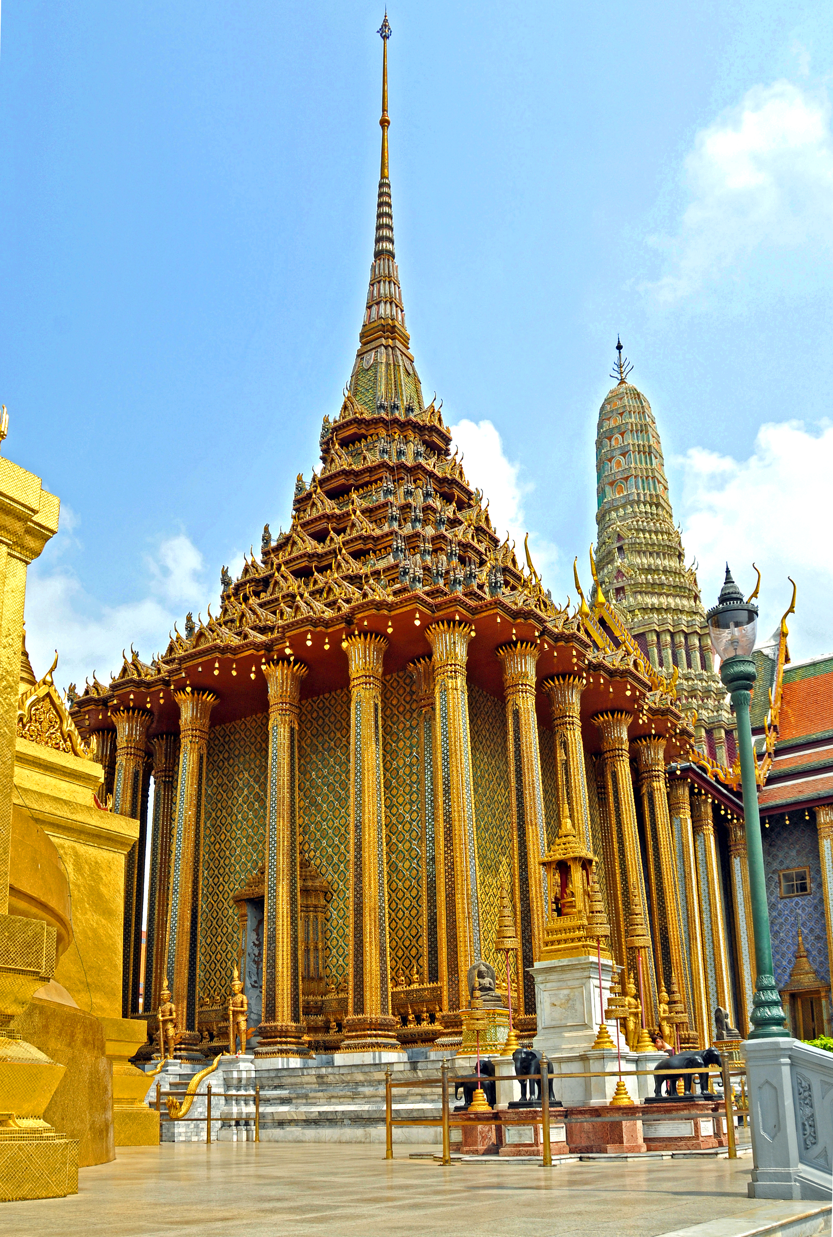 PLEASE, no multi invitations (none is better) in your comments. Thanks. The library (Phra Mondob), contains sacred Buddhist scriptures. Bangkok, Thailand